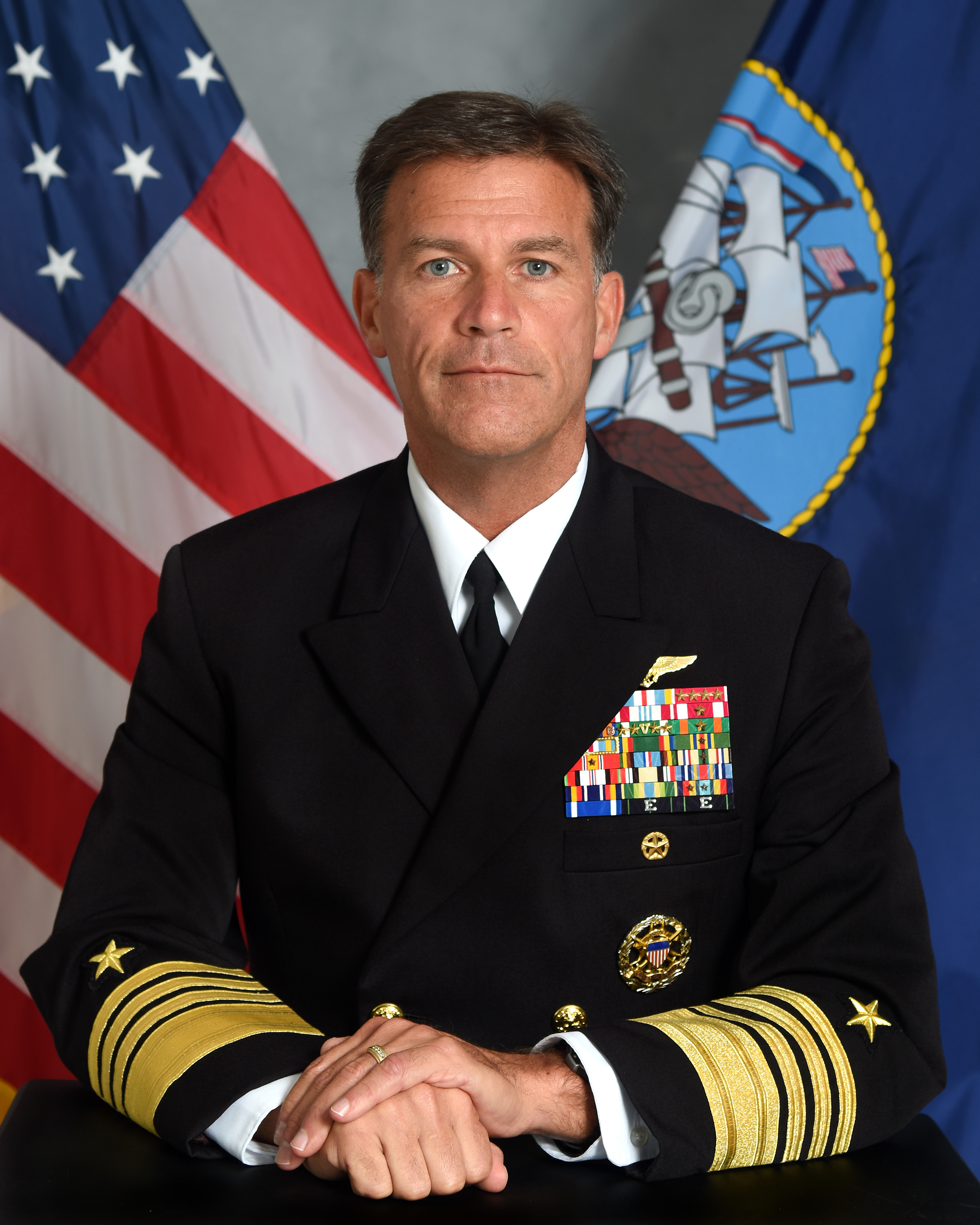 Latest official portrait